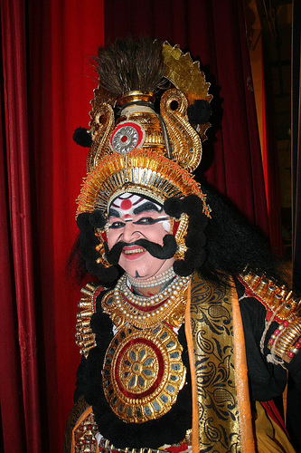 The author of this image Mr.Manohara Upadhya( has graciously released all rights.